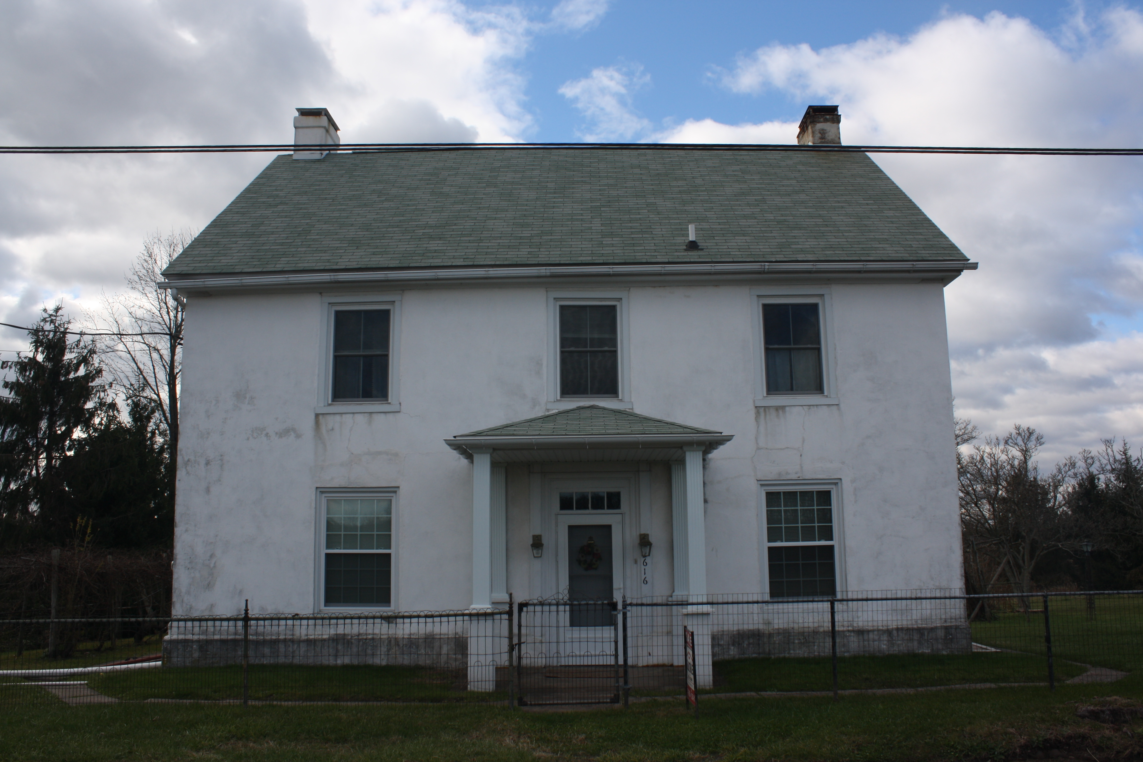 Long Meadow Farm, also known as Plank House and Barn, is a historic home and barn located in New Hanover Township, Montgomery County, Pennsylvania. Route 73, east from New Hanover Square Rd. Object location40° 18′ 34.3″ N, 75° 32′ 16.4″ W